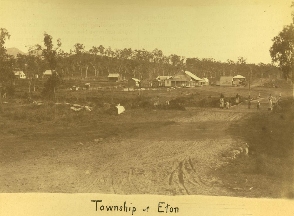 Township of Eton, circa 1880